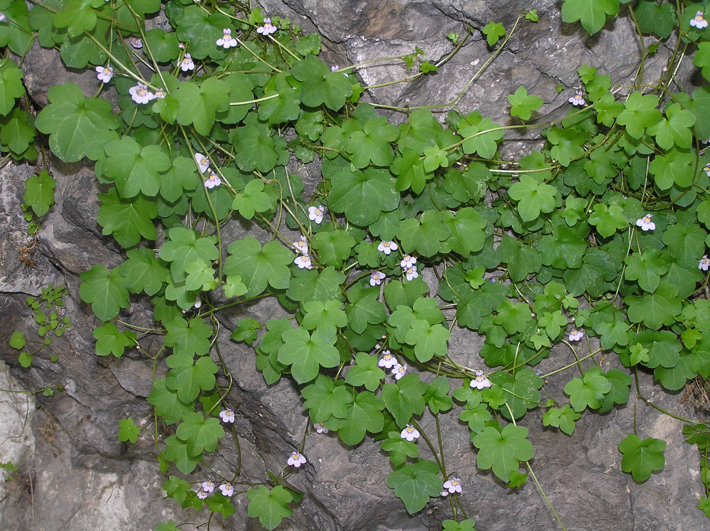 Cymballaria muralis, Mikulov, Southern Moravia, Czech Republic